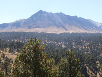 View of Nevado de Toluca from the trailhead